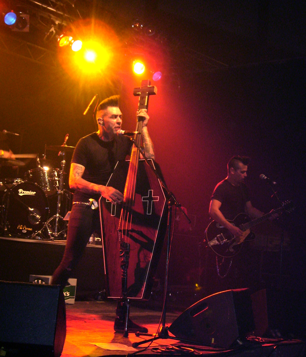 The Nekromantix show on Satanic Stomp Festival, Germany 2008